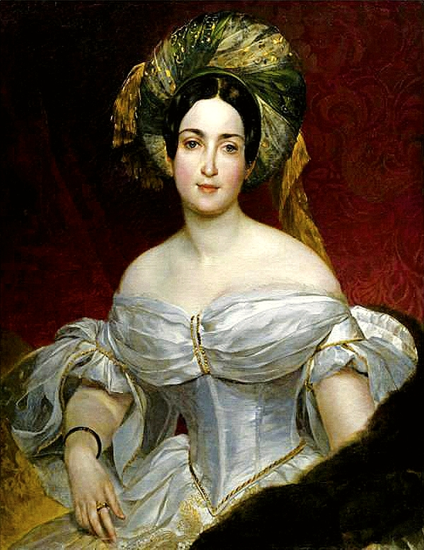 Portrait of Aurora Karamzin